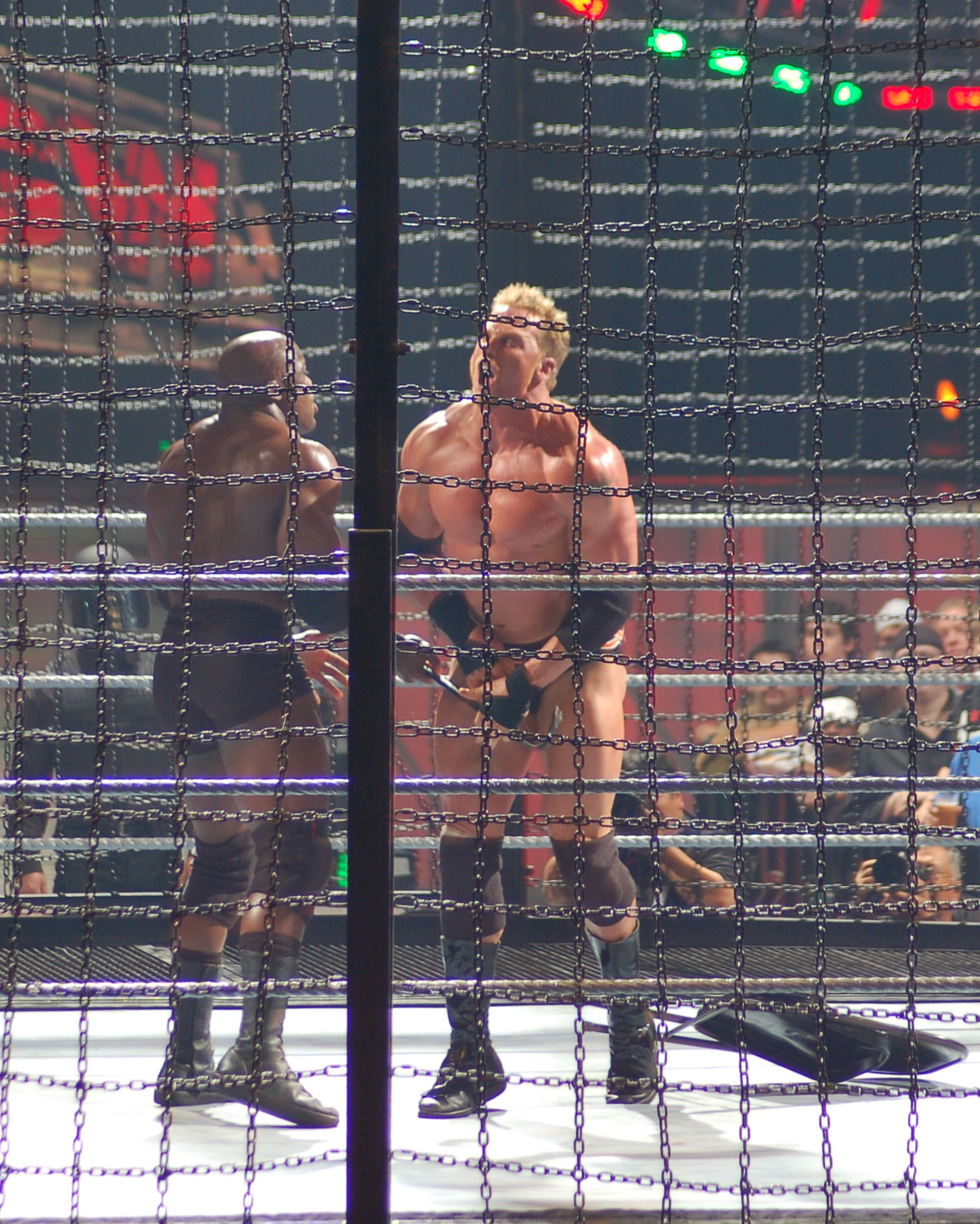 Bobby Lashley and Test at ECW December to Dismember in 2006